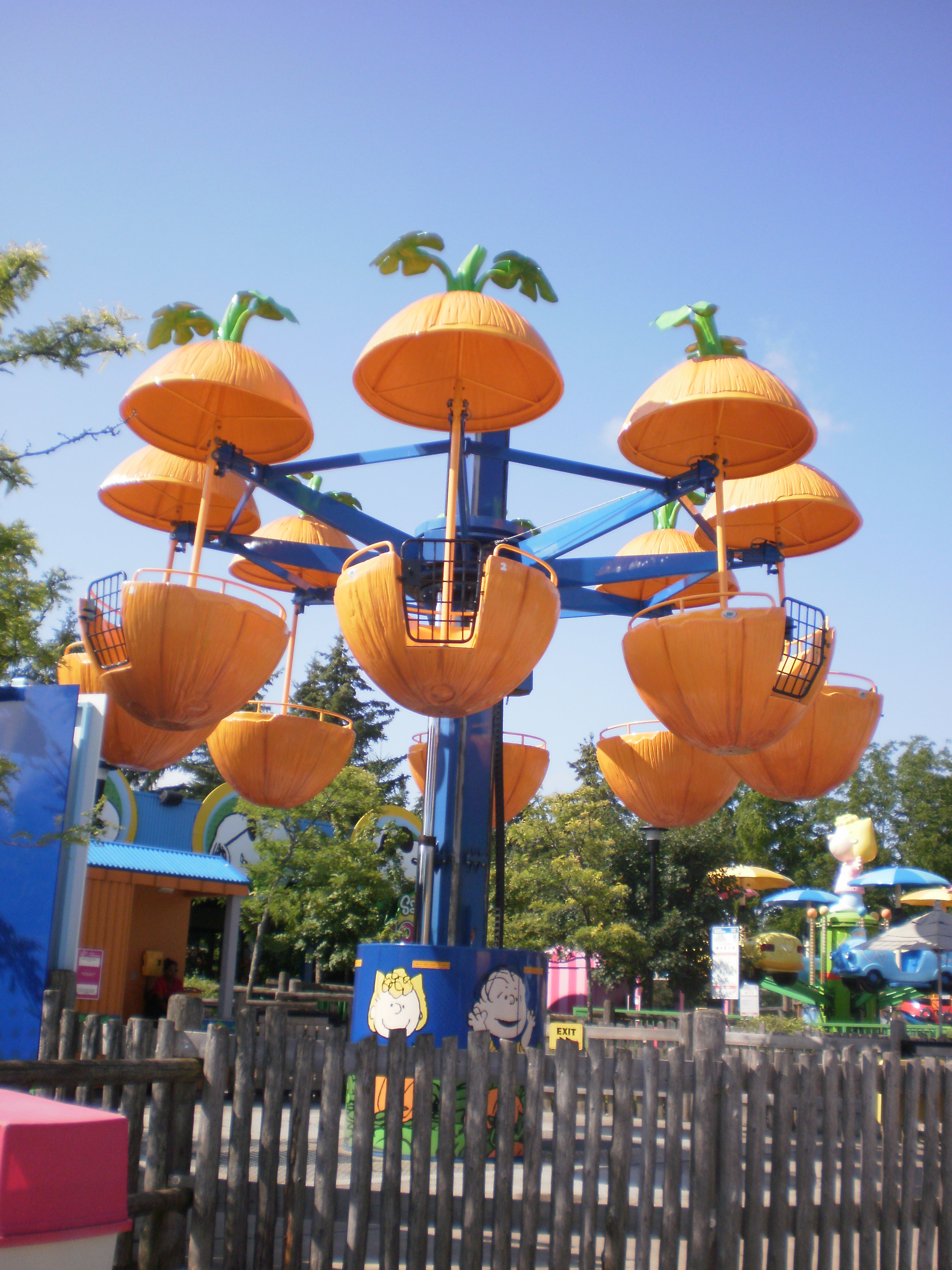 The Pumpkin Patch ride at Canada's Wonderland, in the lower half of the Planet Snoopy section of the park. The park was formerly themed as The Wild Thornberrys Treetop Lookout.